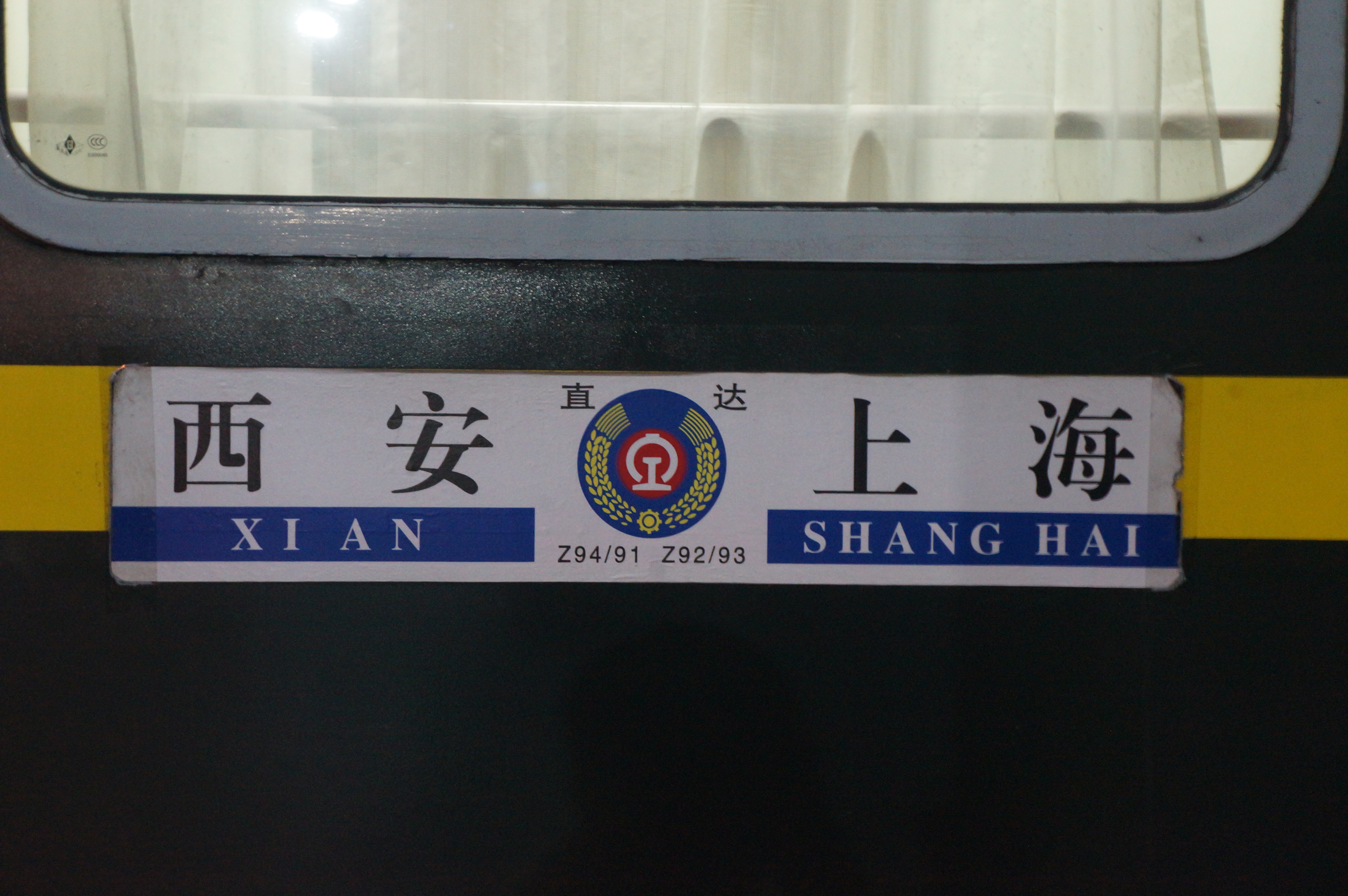 Z91 2 3 4 info board in 201702. Taken at Wuxi Station